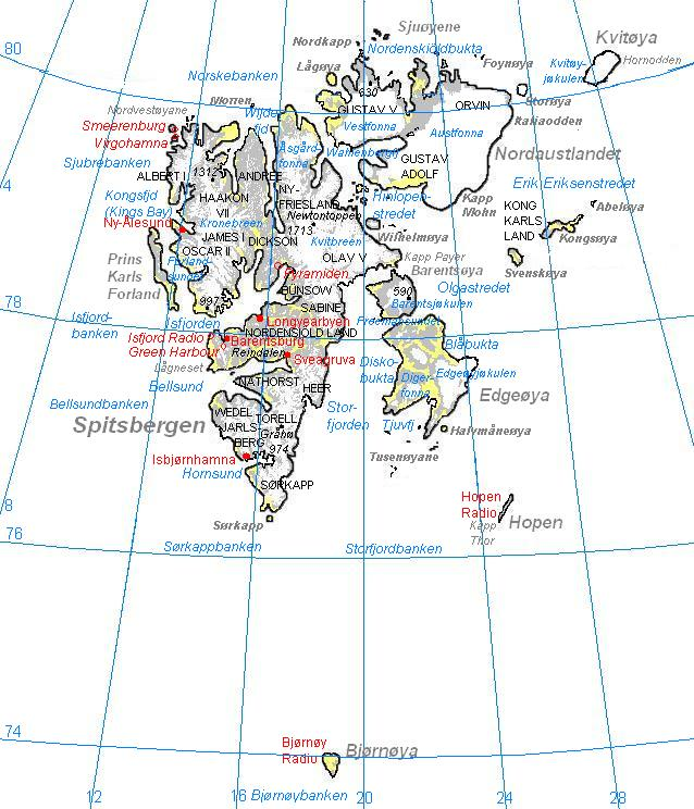 Map of Svalbard. Selfmade from, drawn after map by Norsk Polarinstitutt (Norwegian Polar Institute)